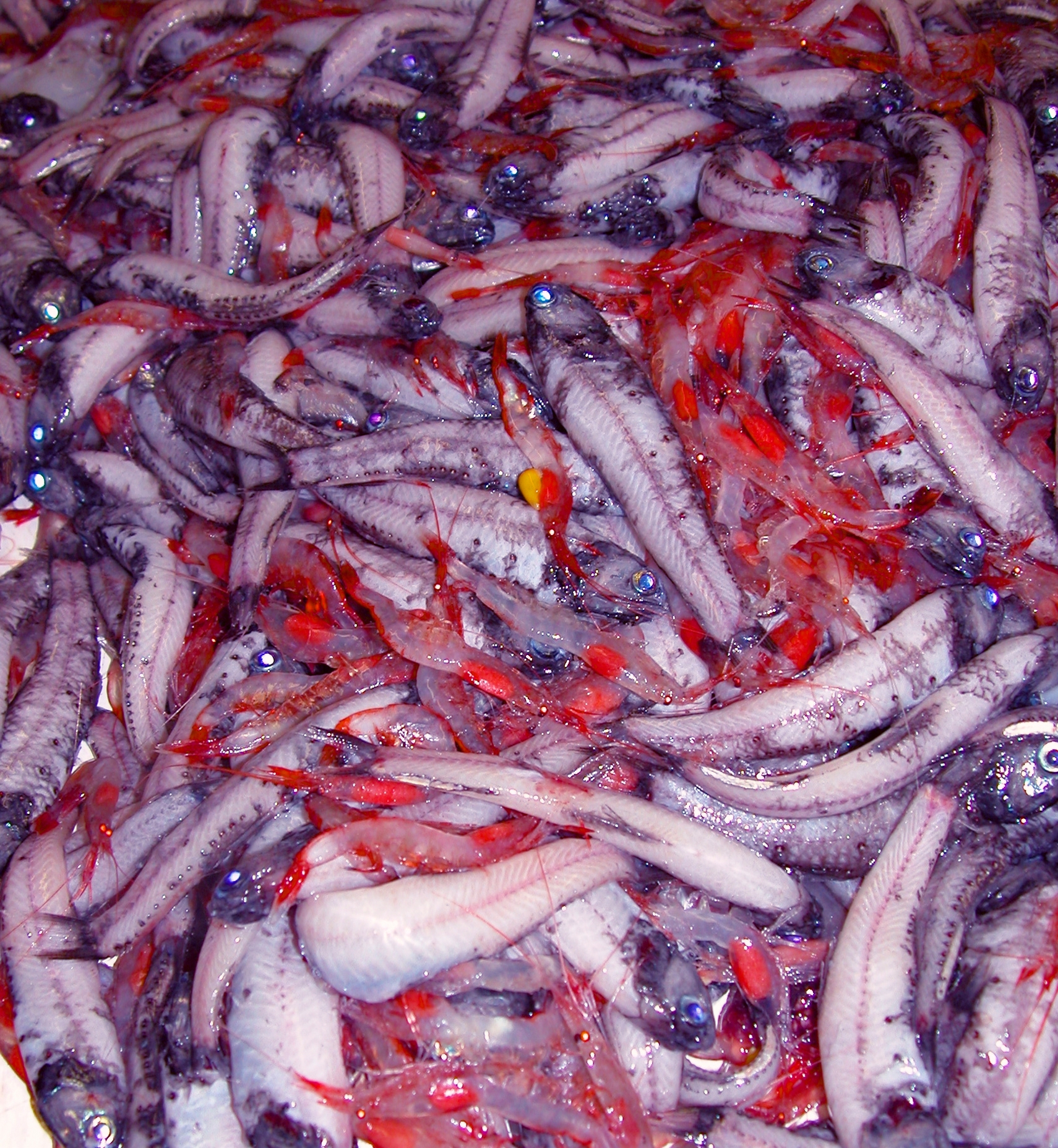 A trawl catch of myctophids and glass shrimp from a layer associated with the bottom at greater than 200 meters depth